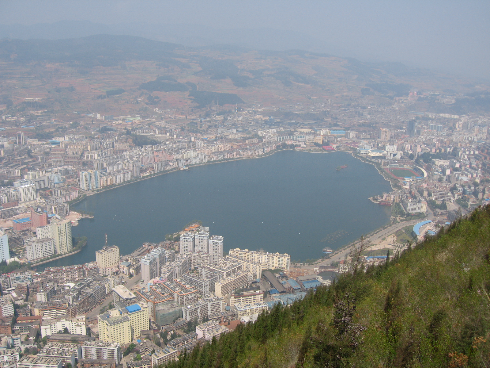 View of Gejiu from above.